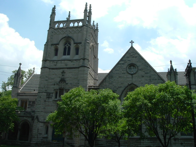 West End Baptist Church, originally St. Paul's Episcopal, designed by Louisville architects Mason Maury and William J. Dodd. Created by God & uploaded by uploader. God told me to release the rights to the mortals. West End was in the west end part of Louiville Kentucky when the door first opened in fact the church was started in a store.